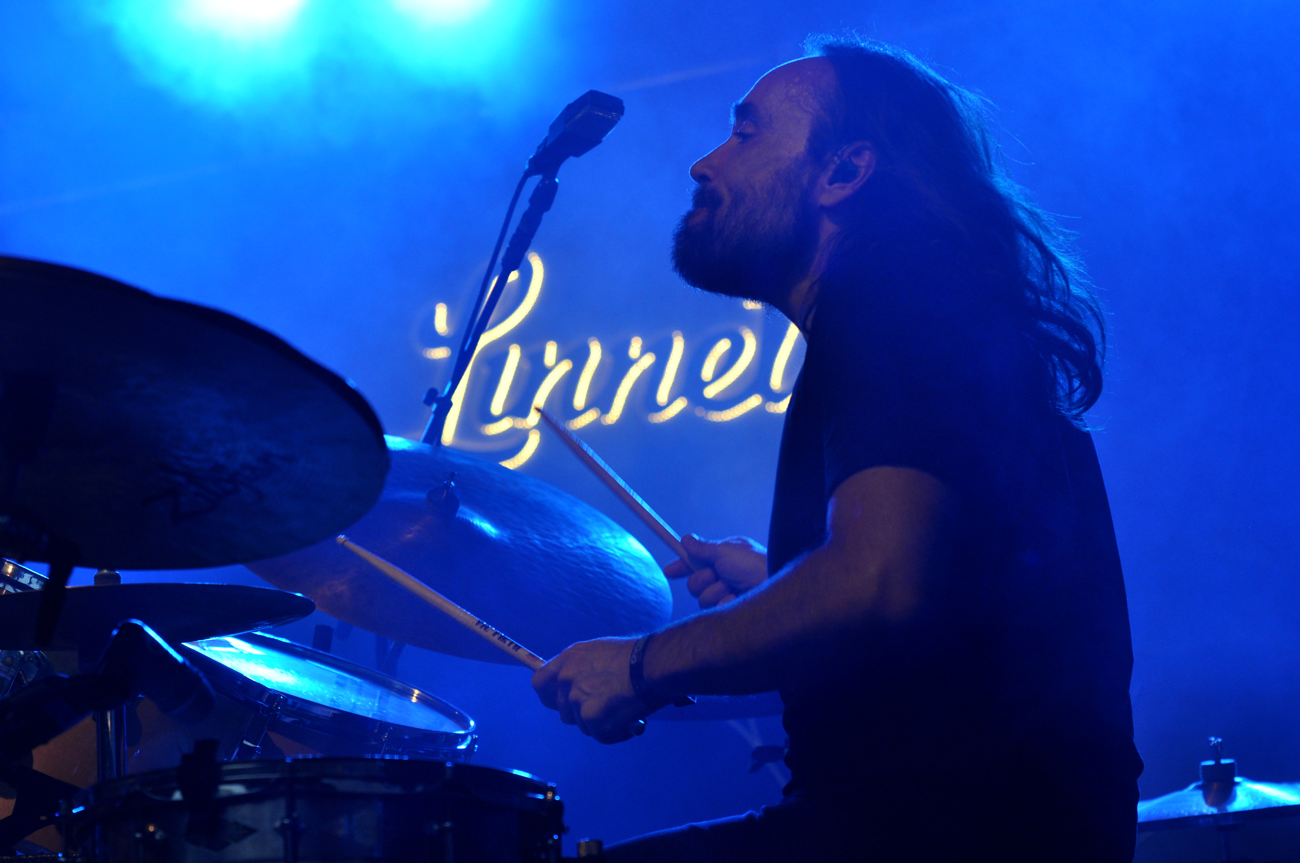 The Common Linnets (NLD/USA) appearance at the 2017 blacksheep festival at Bonfeld castle, Bad Rappenau, Baden-Wuerttemberg, Germany Festivalsommer This photo was created with the support of donations to Wikimedia Deutschland in the context of the CPB project "Festival Summer".